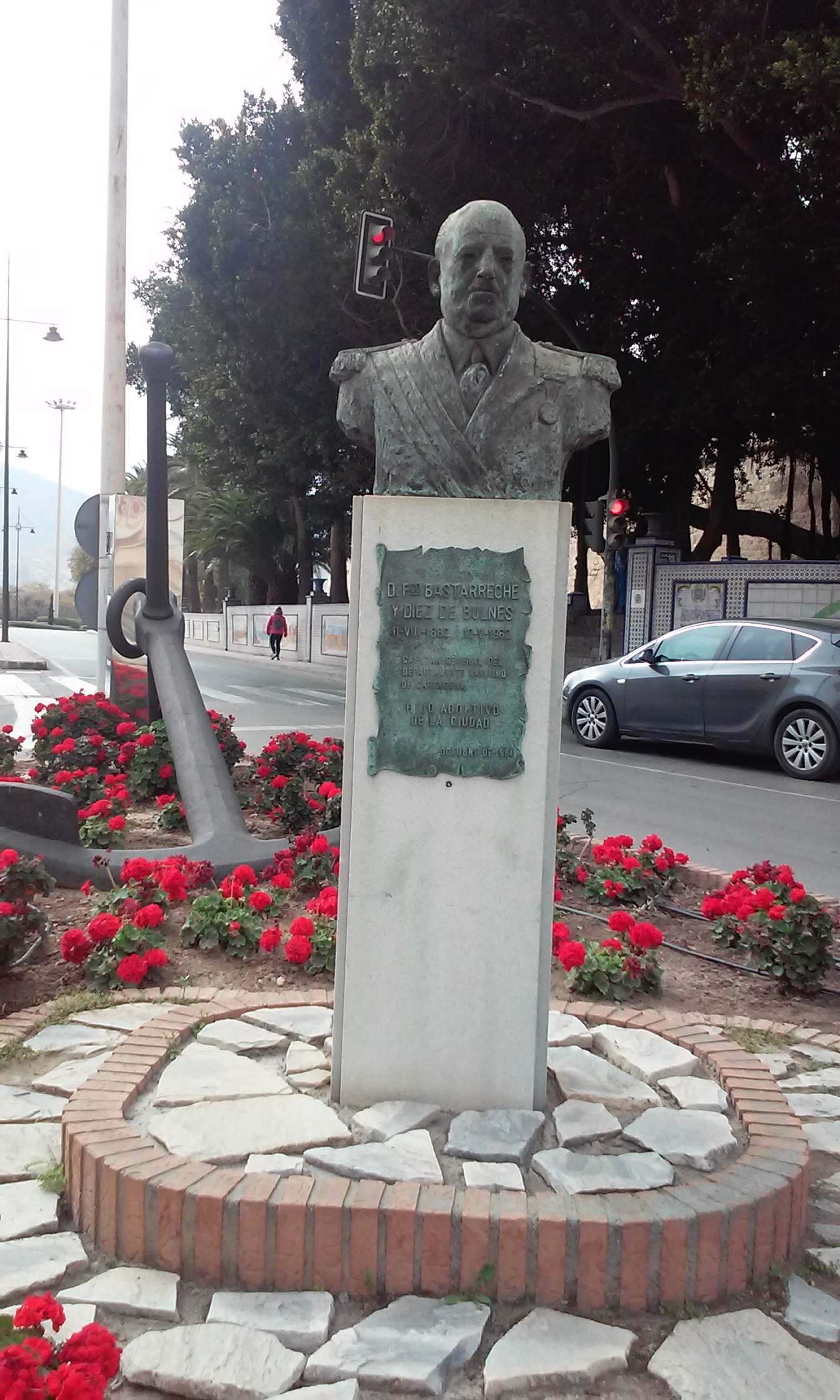 Bust dedicated in 1984 to Admiral Francisco Bastarreche y Díez de Bulnes (1882-1962), combatant by the Nationalist faction during the Spanish Civil War and captain general of the Maritime Department of Cartagena. The sculpture, which was chairing Bastarreche Square of the Spanish city of Cartagena (Region of Murcia), was withdrawn on June 8, 2016 pursuant to the 2007 Historical Memory Law.